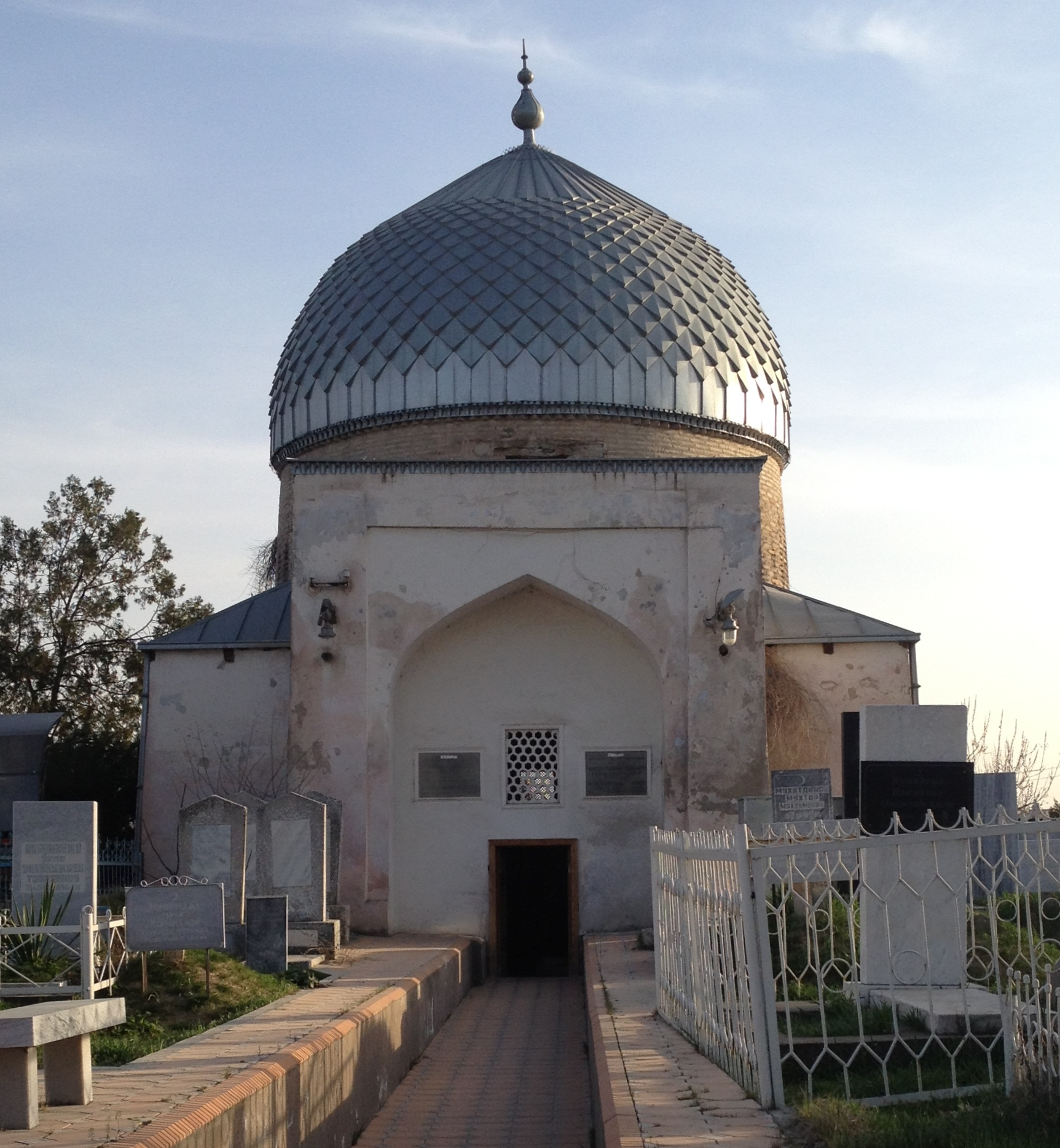 Khoja Alambardor mausoleum